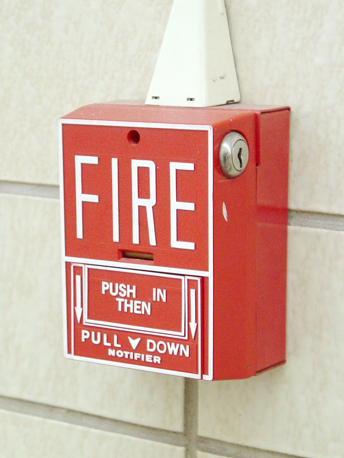 Notifier BG-10 pull station